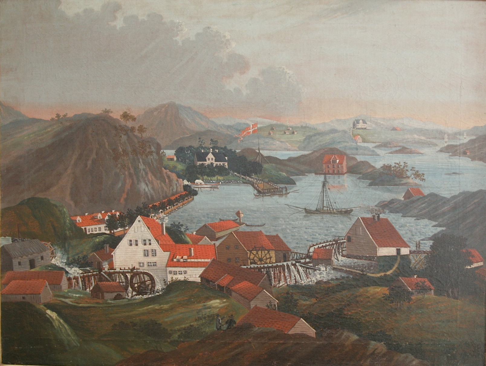 Prospekt of Alvøen painted in 1808